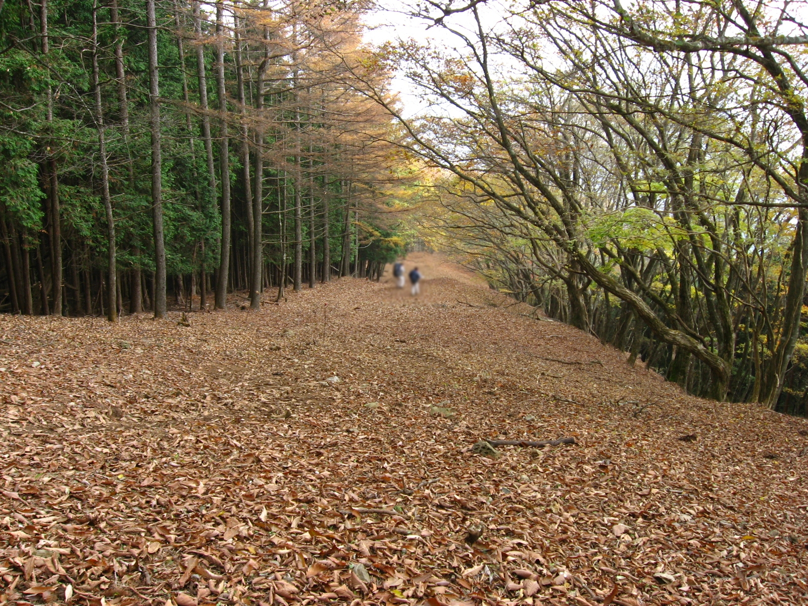 Mountain climbing trail of Ishi-one in Okutama area, Tokyo, Japan.